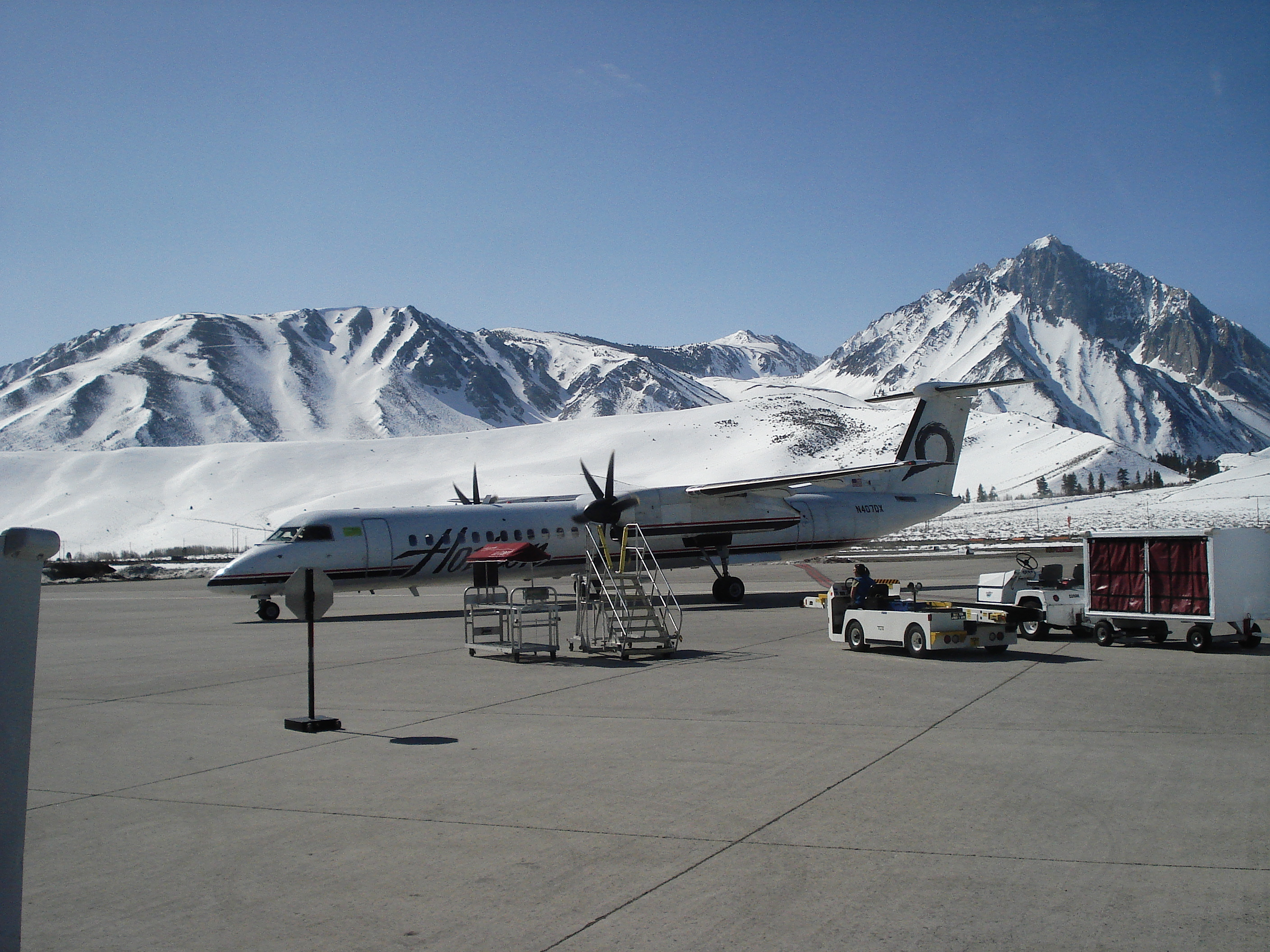 Horizon Air Q400 at Mammoth Yosemite Airport in 2010